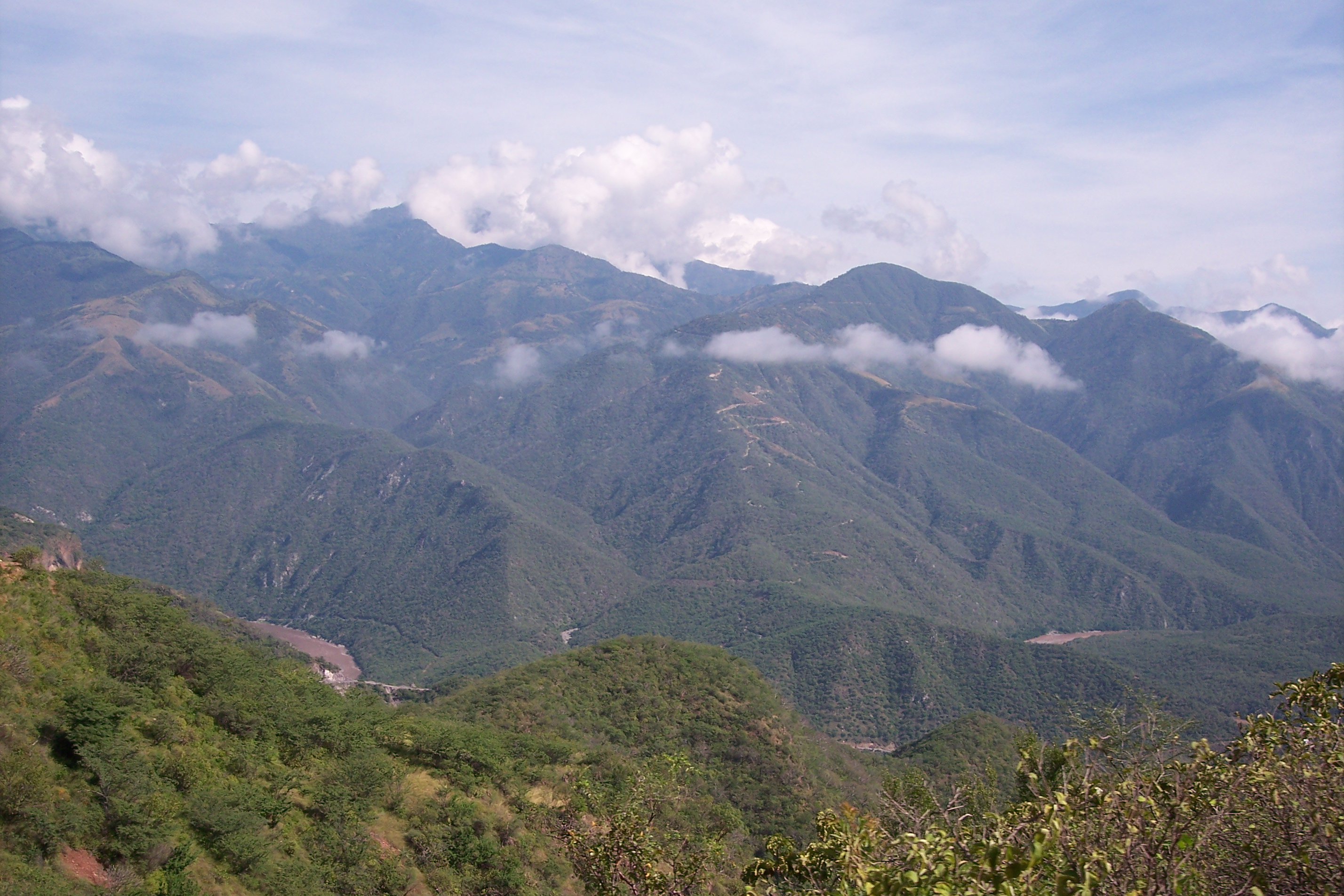 ... que majestuosa se levanta. En la foto a partir del Río Santiago. See where this picture was taken. [?]